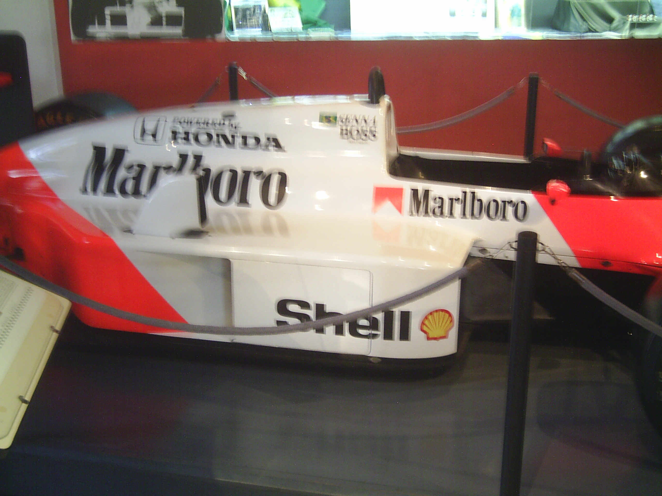 The McLaren MP4/3B-Honda test car